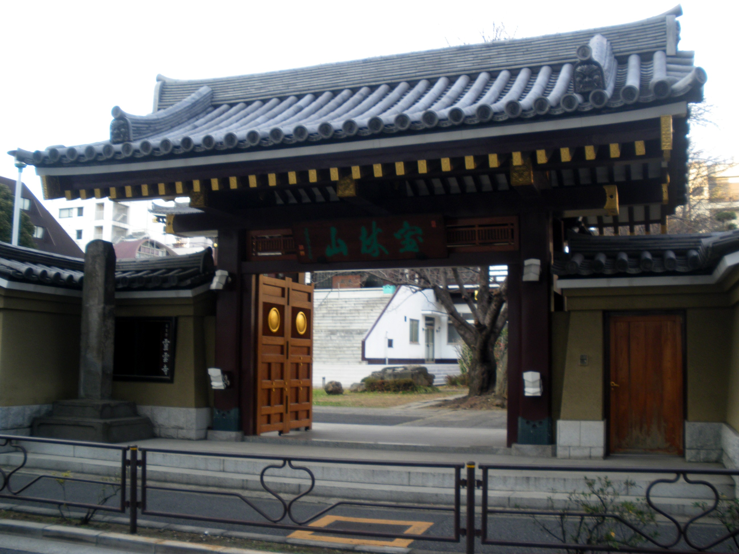 Reiunji Temple(Ushima,Bunkyo,Tokyo)